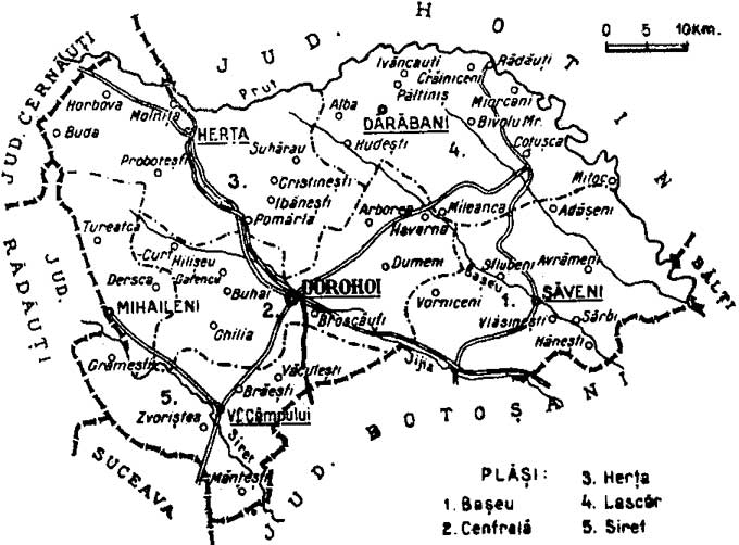 Map of Dorohoi interwar county, Kingdom of Romania (1938).